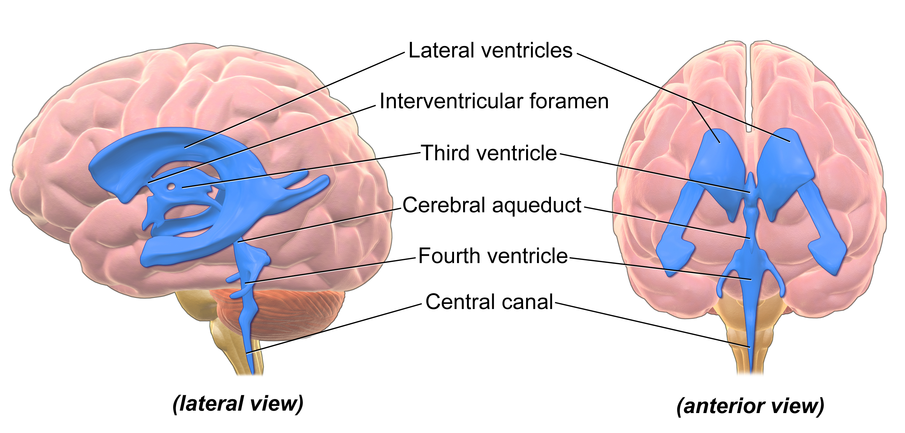 Ventricles of the Brain. See a related animation of this medical topic.